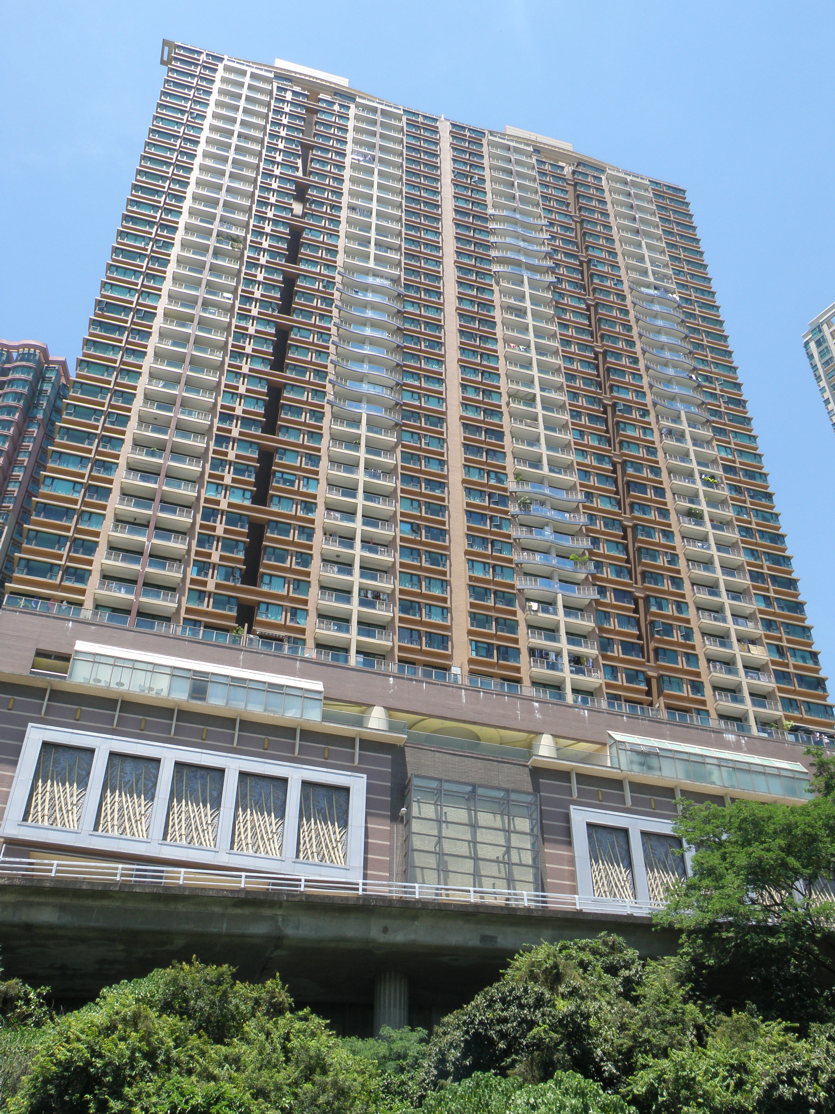 Angler's Bay in Sham Tseng, Hong Kong.